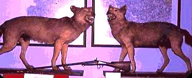 A scan of a photograph taken by the author of the taxidermied Wolves of Perigord at the chateau of Razac, former Perigord Province